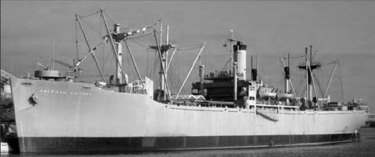 Image of SS American Victory, a VC2-S-AP2 type Victory Ship (errantly labeled elsewhere the SS Maritime Victory, which was subsequently renamed the Pvt. Frederick C. Murphy)